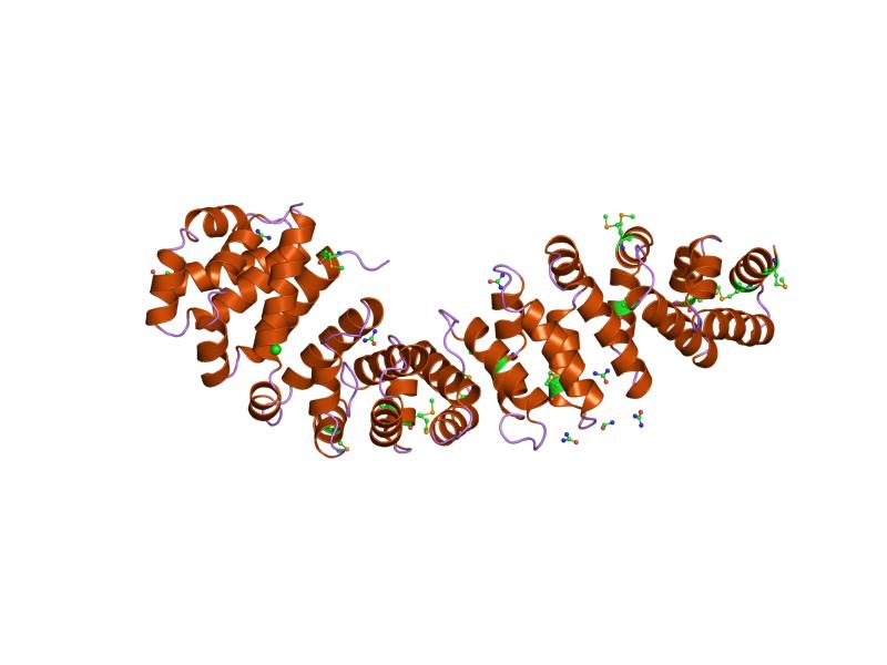 Cartoon representation of the molecular structure of protein registered with 3bct code.